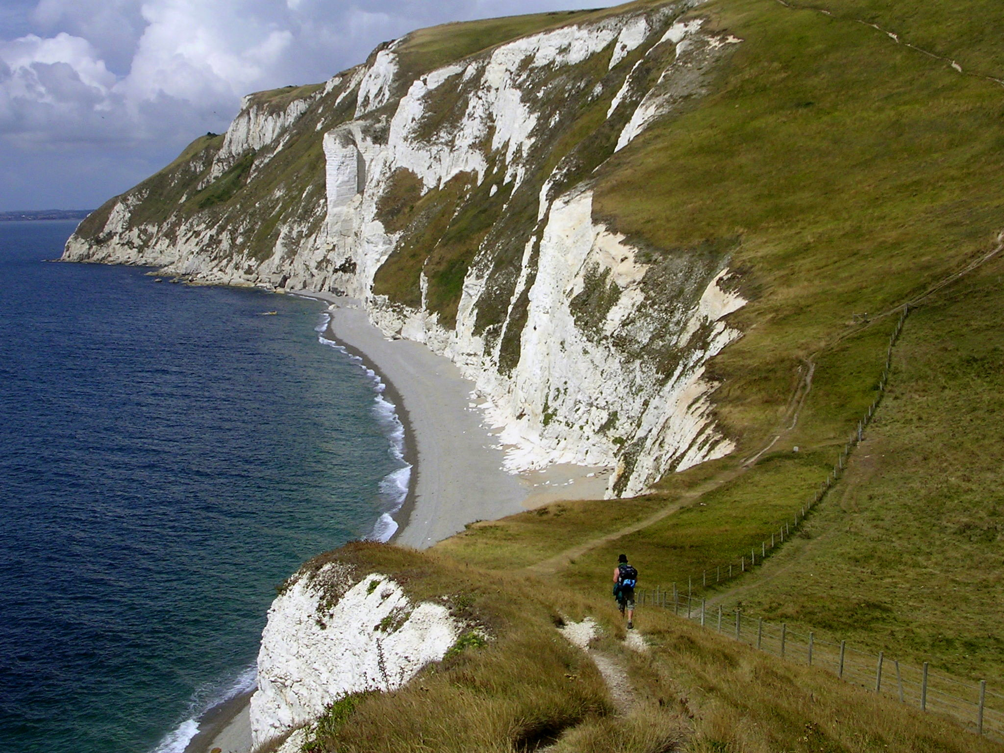 Bats Head to White Nothe: chalk cliffs on the Dorset coast, U.K.